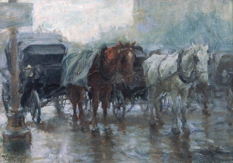 "Dorożki w deszczu", 1938